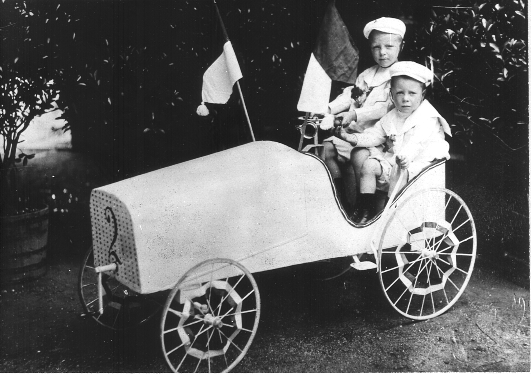 Karl and Willi Mann 3rd winner of the race and winner of the beauty contest of a kid race in Oberursel, Germany, in 1904.